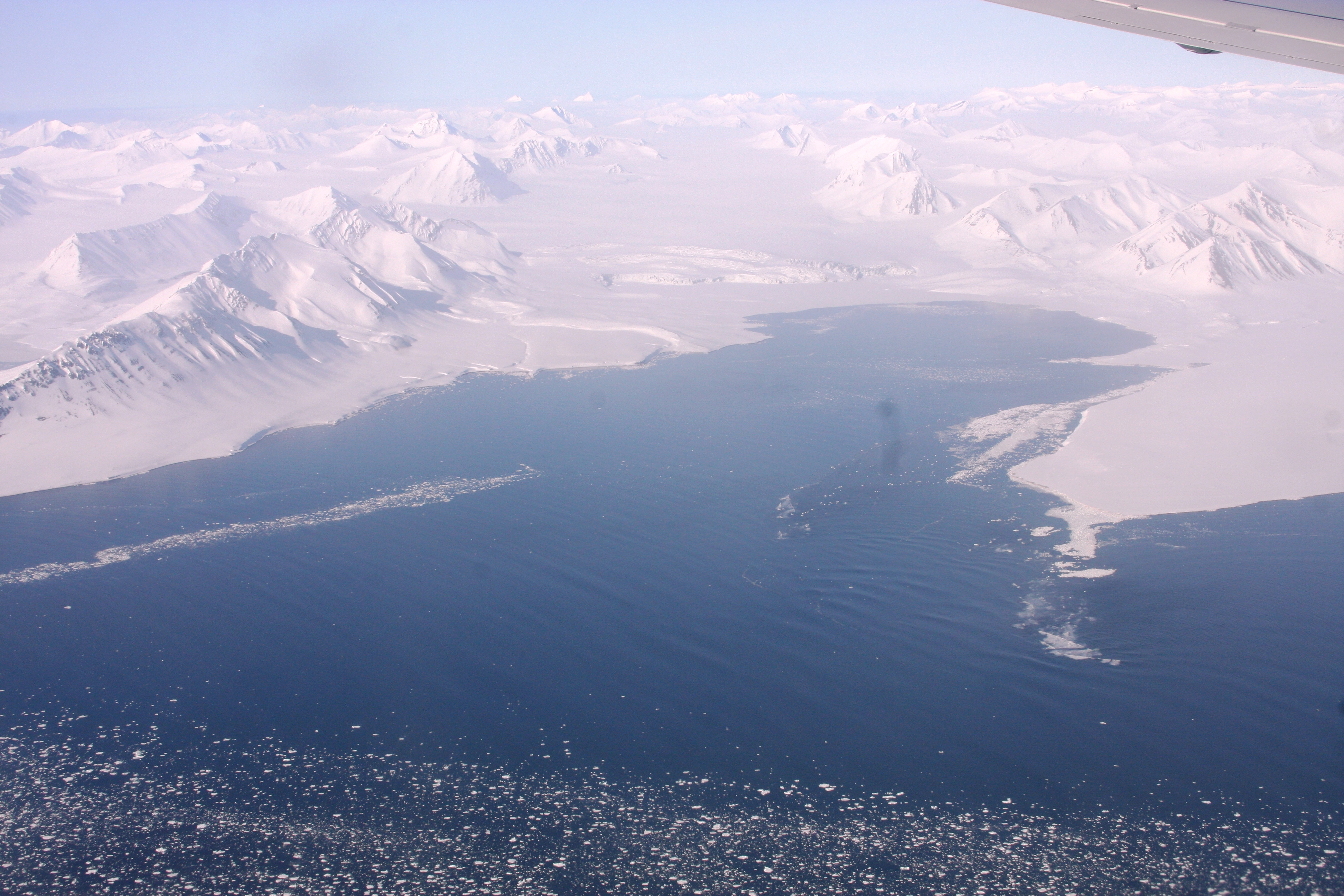 Northern shore of Isfjorden, Oscar II Land